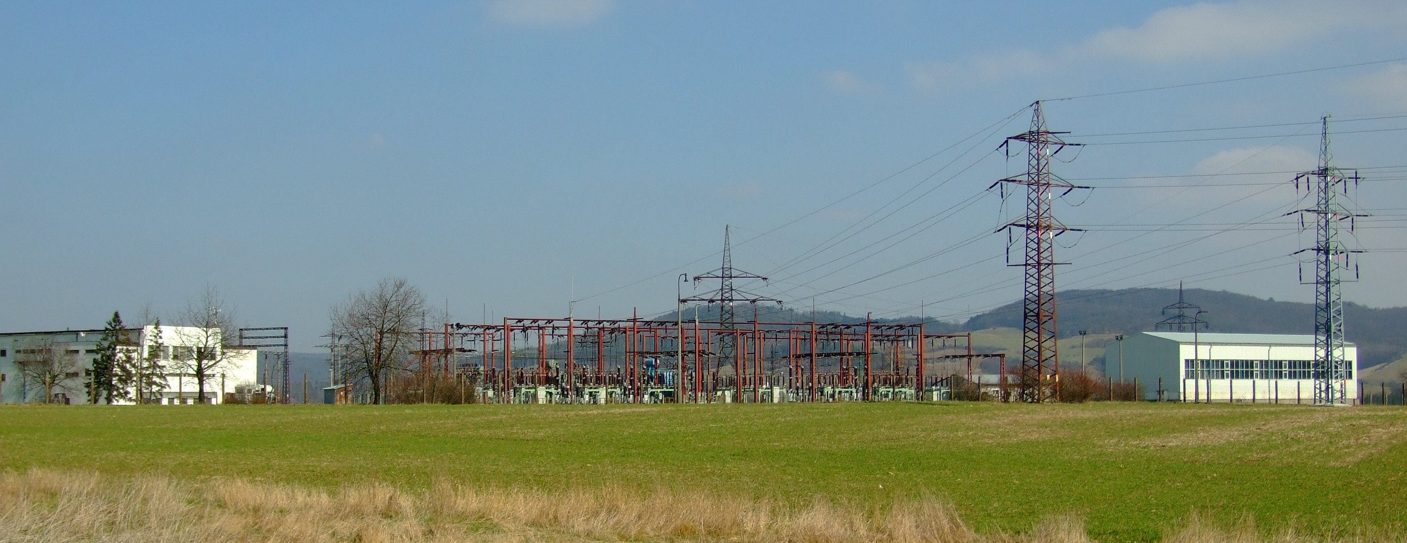 Town of Beroun (Zavadilka area), Beroun substation (110 kV) and its surrounding nature in Central Bohemian region, CZhelp